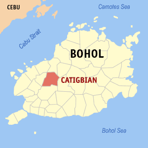 Map of Bohol showing the location of Catigbian